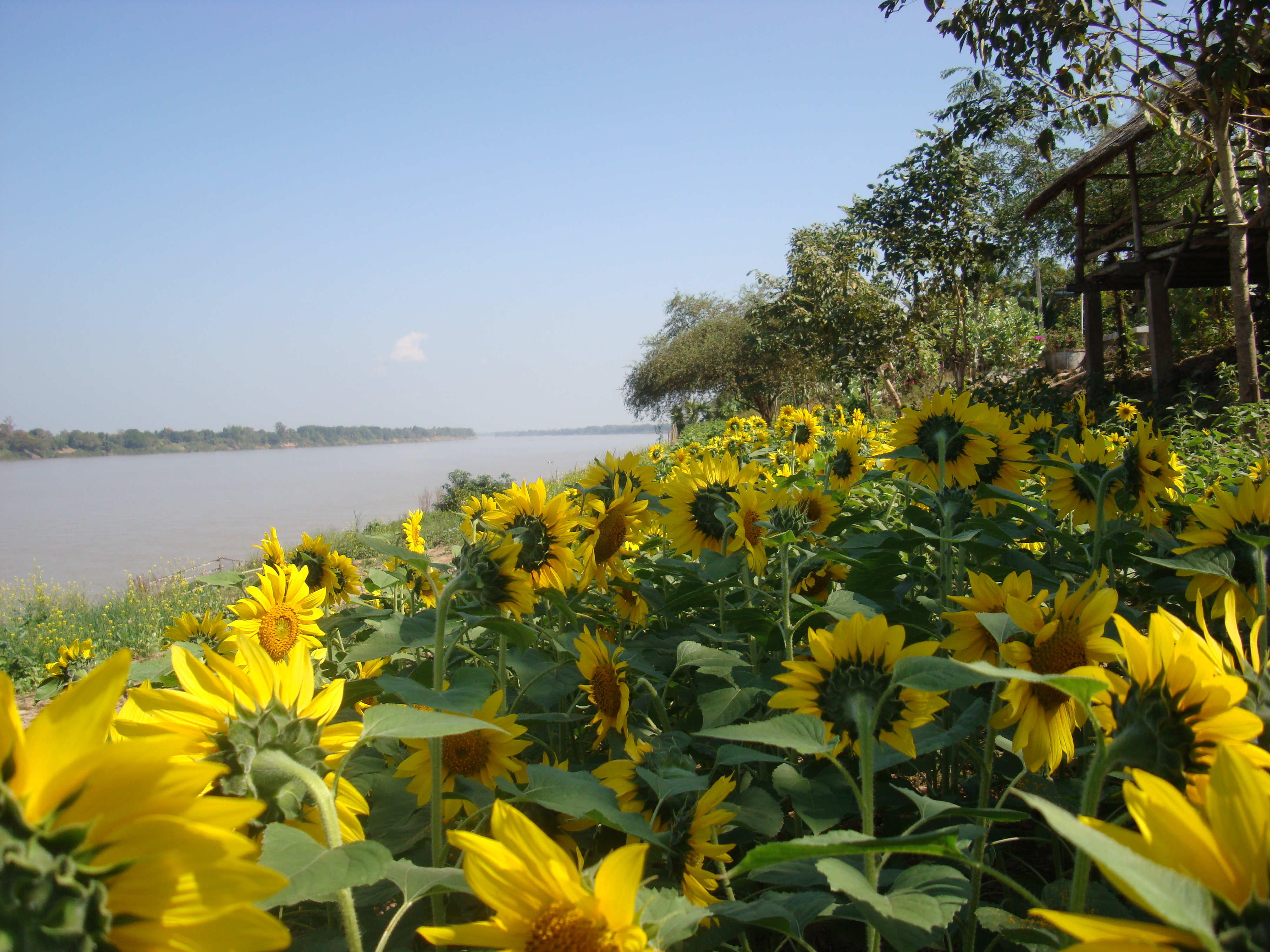 sunfowers at Jom Jaeng, Mueang Nong Khai district, Nong Khai province, northeastern Thailand